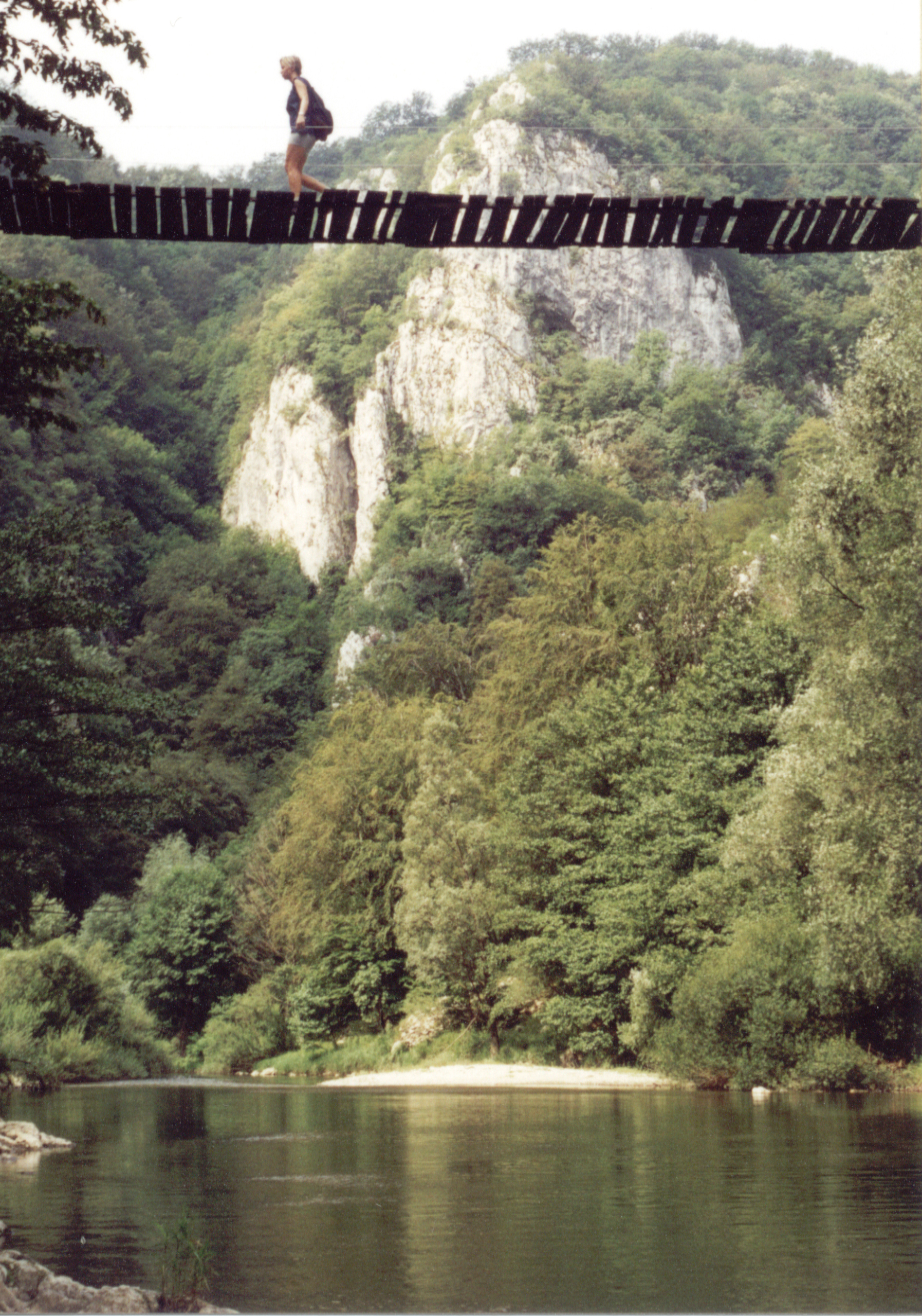 Wobbly bridge over Nera (Cheile Nerei).